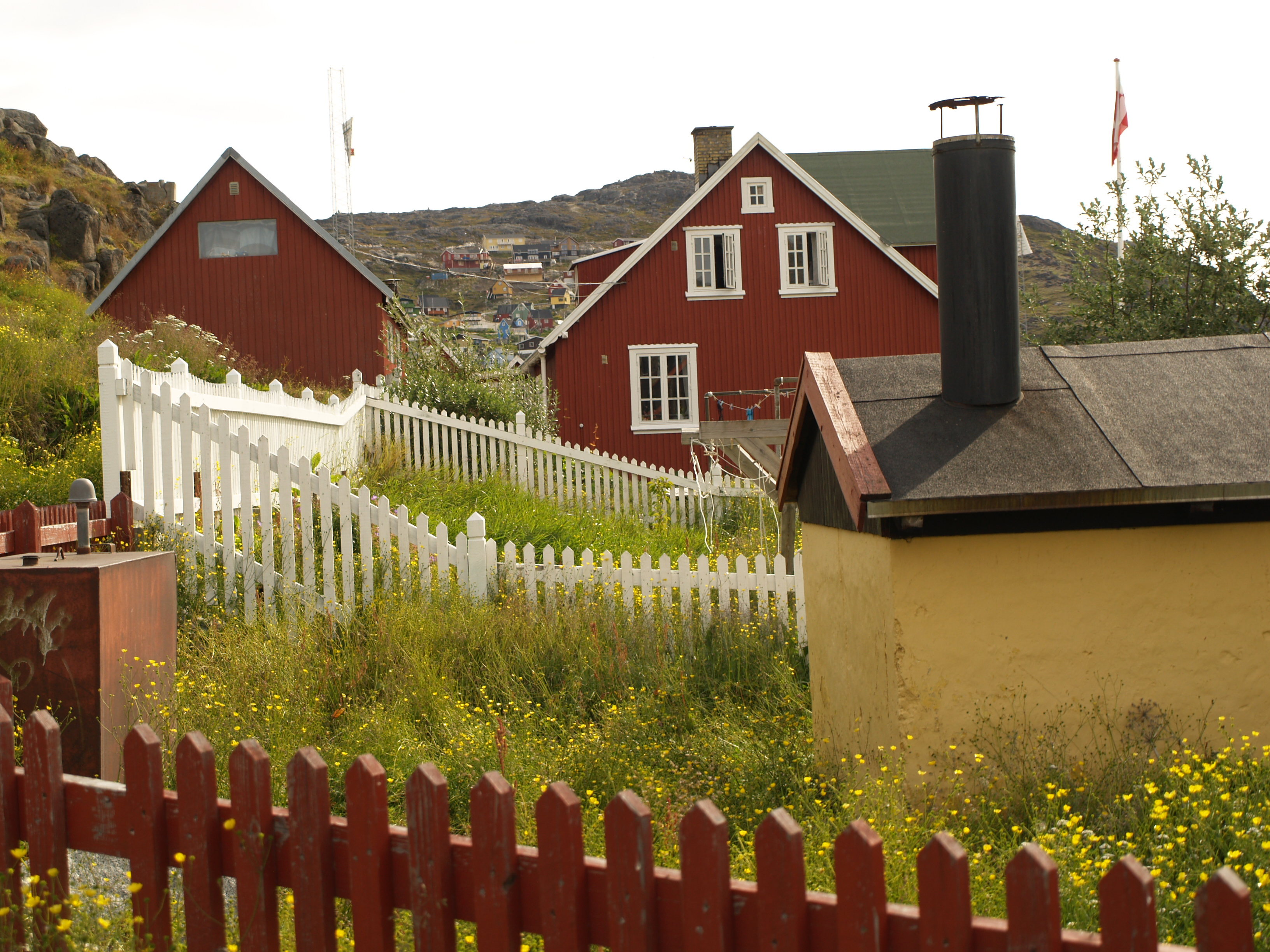 Qaqortoq Greenland homes in summer